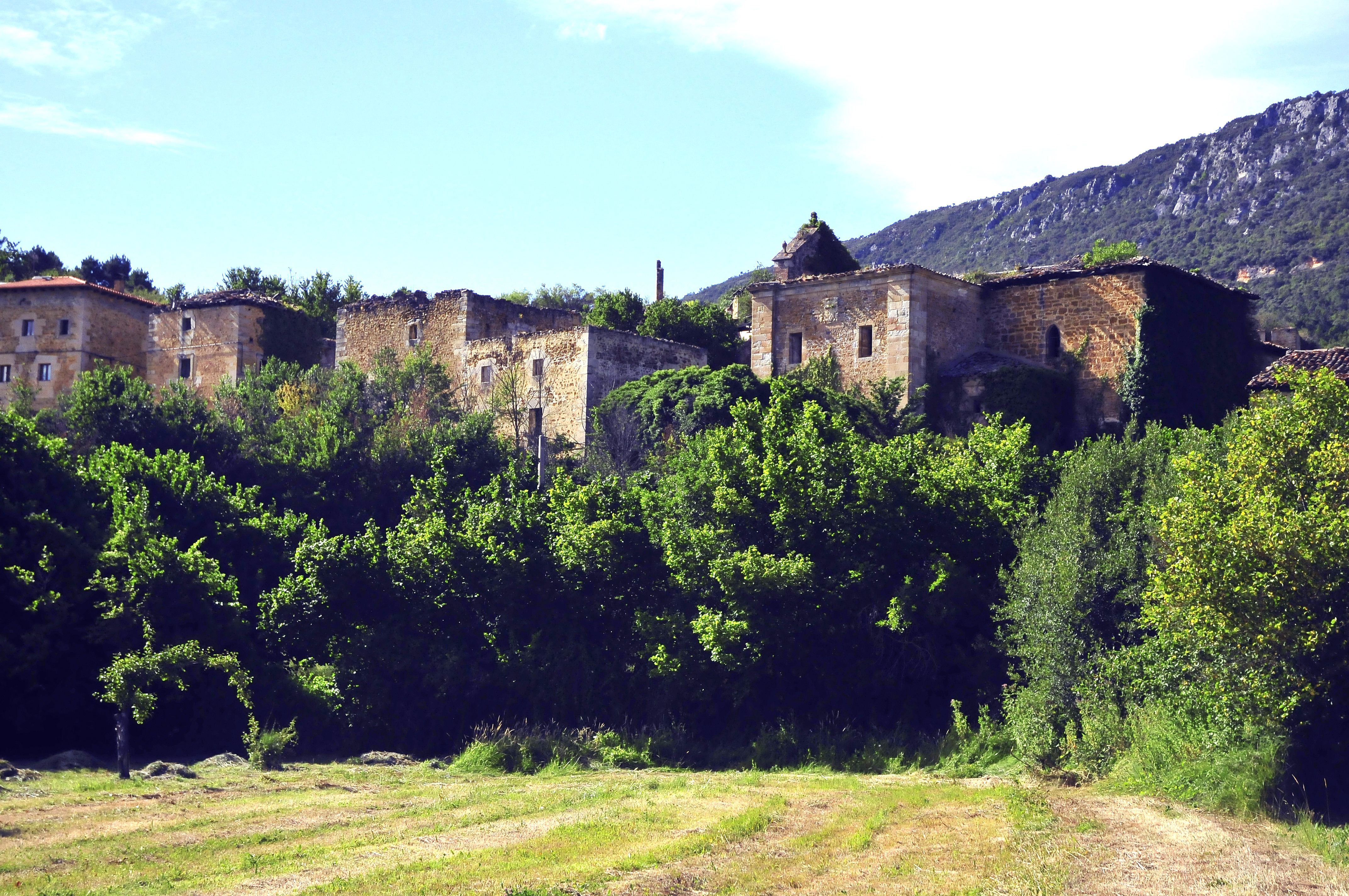 The abandoned village of Tamayo. Oña. Burgos, Castile and Leon, Spain